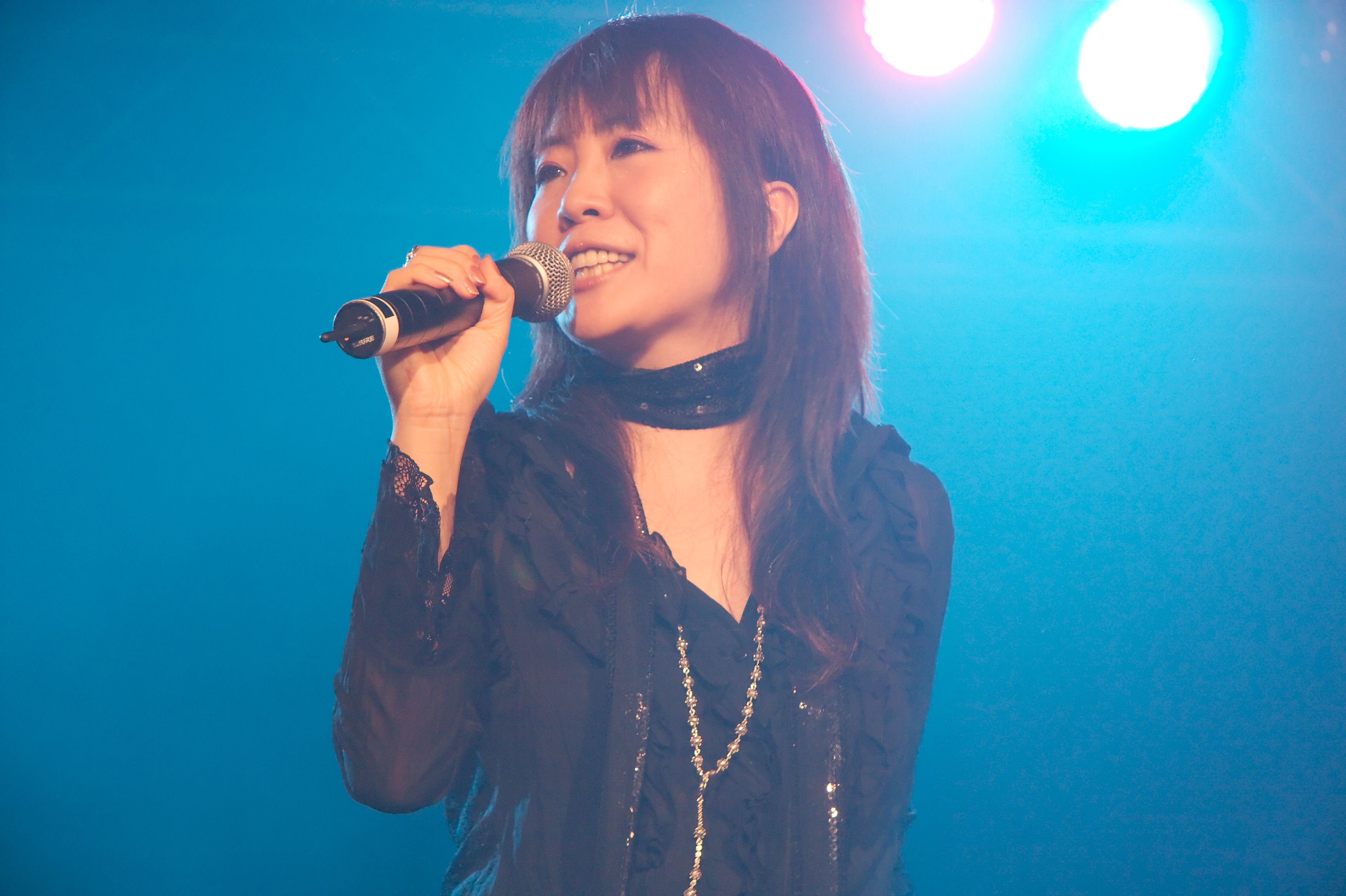 JAM Project live at Chibi Japan Expo 2008 (Paris, France).